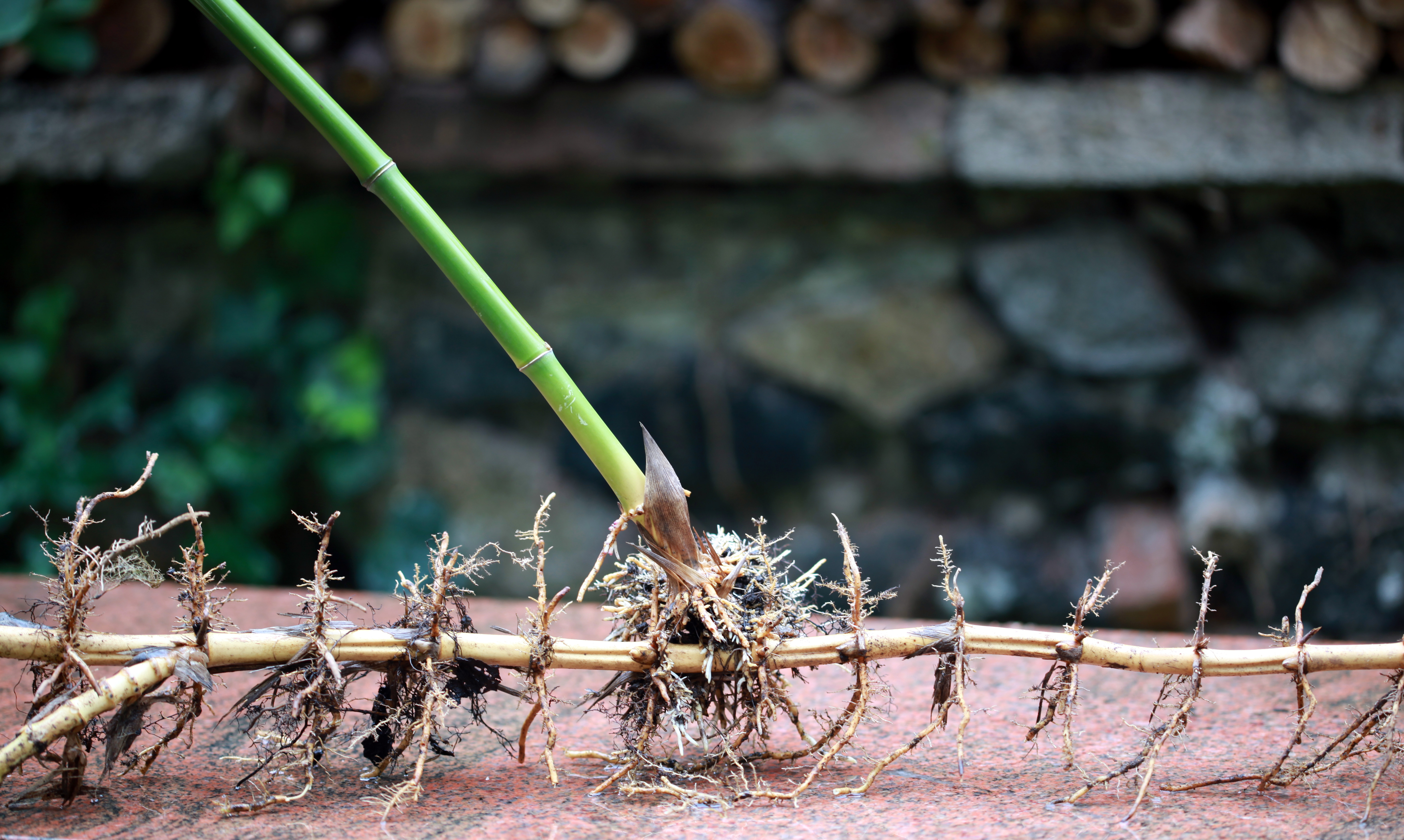 The rhizome from Phyllostachys bambusoides. Dug out and rinsed. In the centre a haulm.